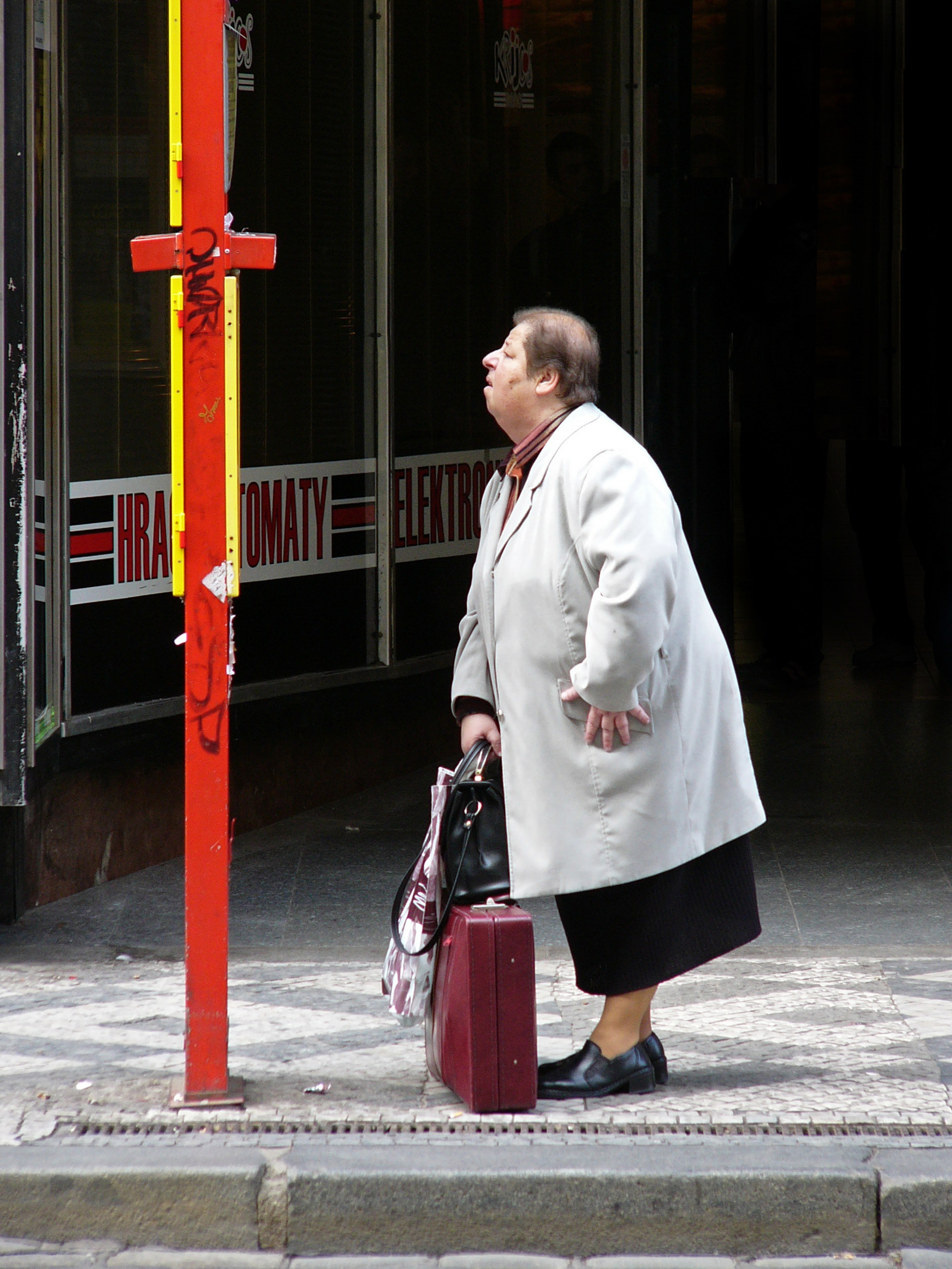 A lady checks the timetable at a tram stop in Prague